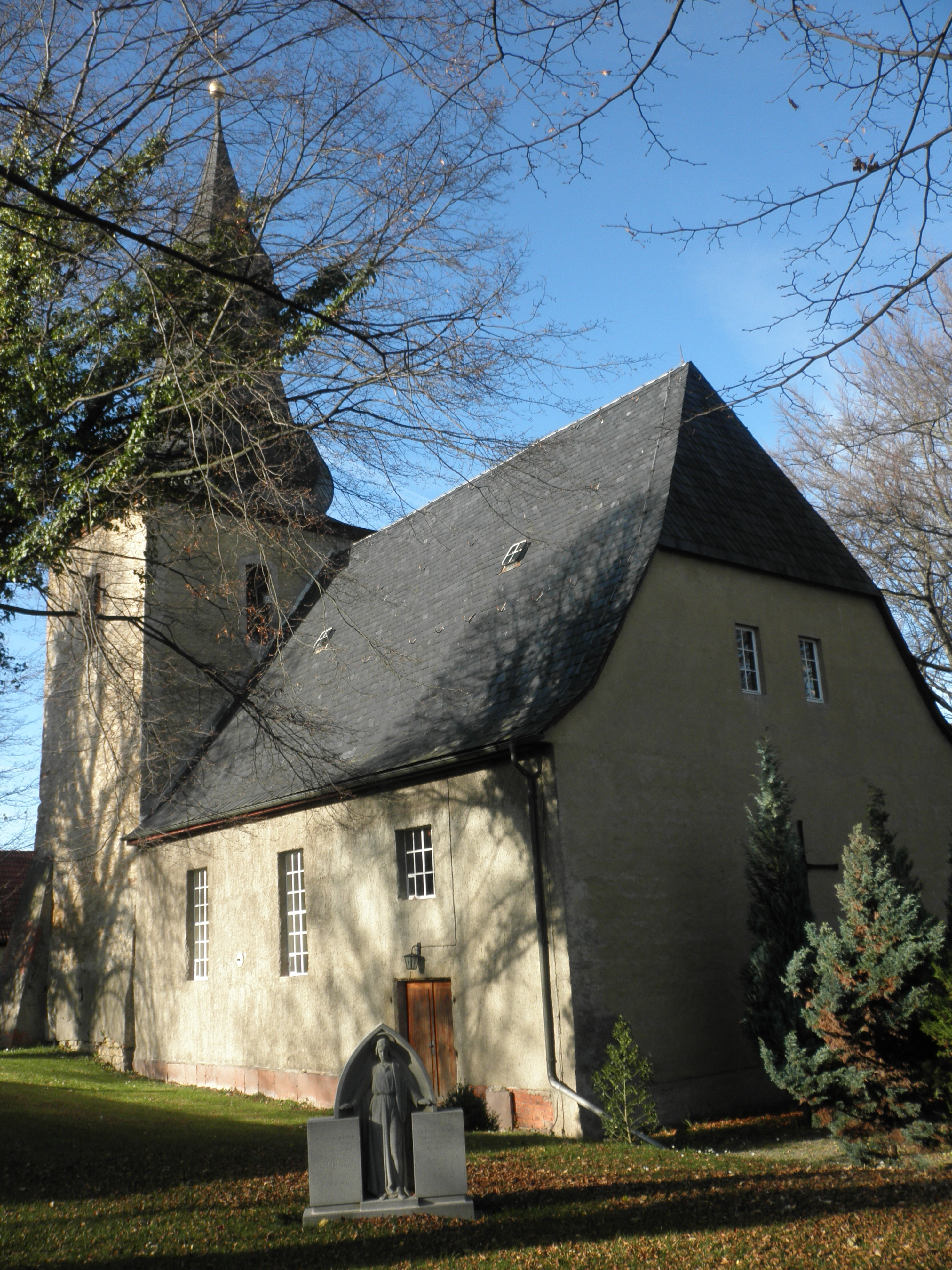 Church in Vogelsberg in Thuringia